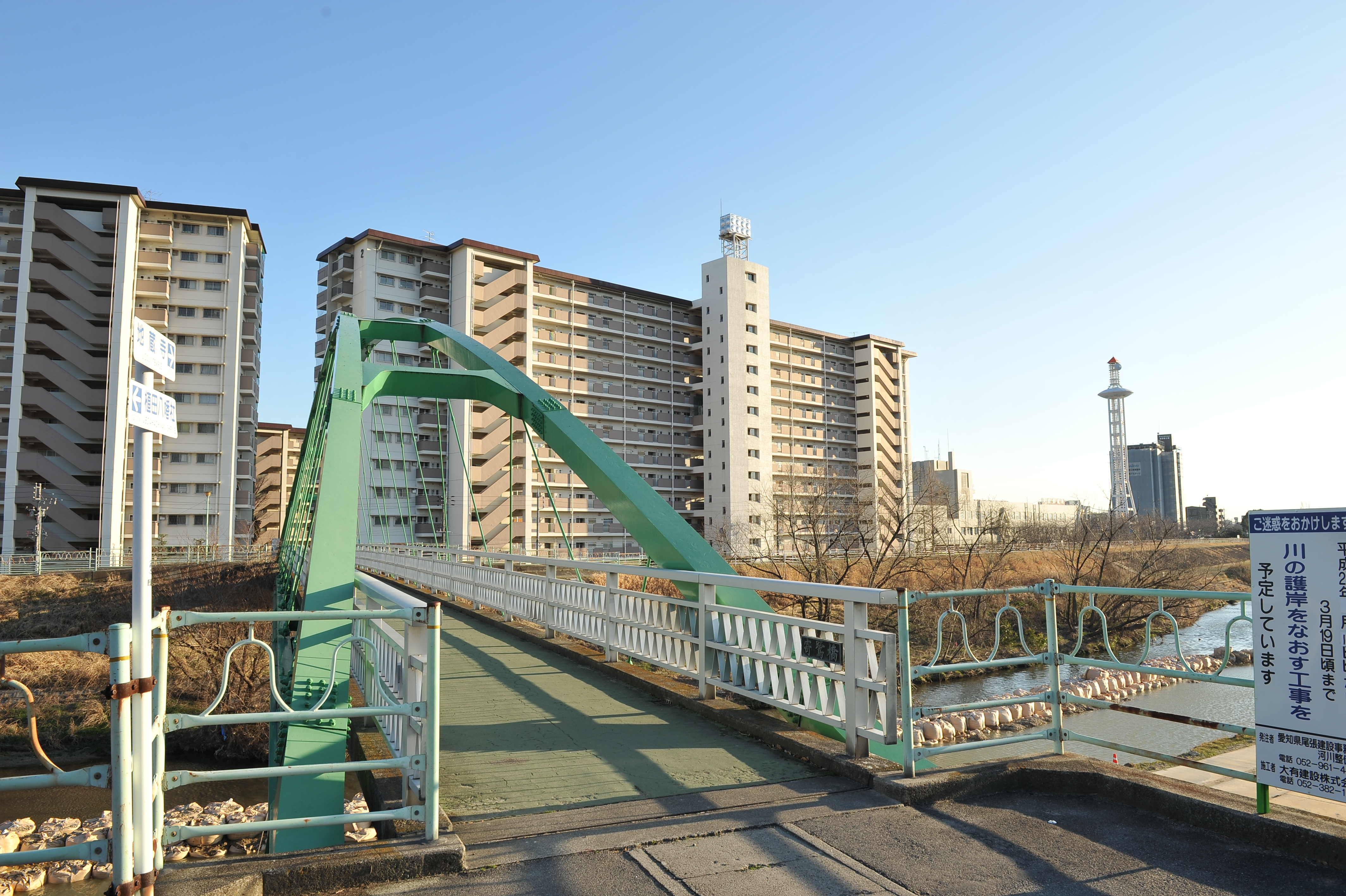 Kiryo Bridge, Tenpaku-ku, Nagoya